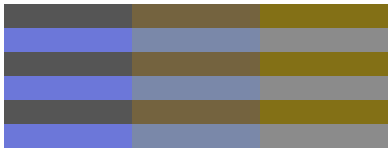 Color stripes of Dressgate (#thedress)